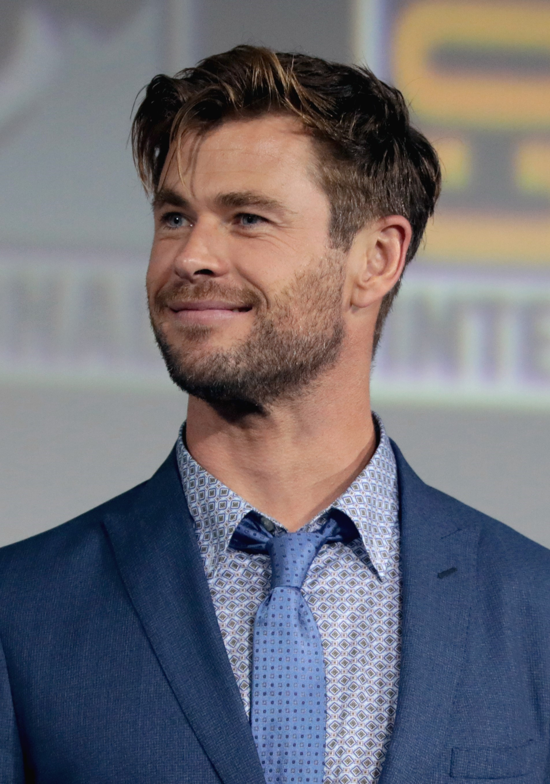 Chris Hemsworth speaking at the 2019 San Diego Comic Con International, for "Thor: Love and Thunder", at the San Diego Convention Center in San Diego, California.